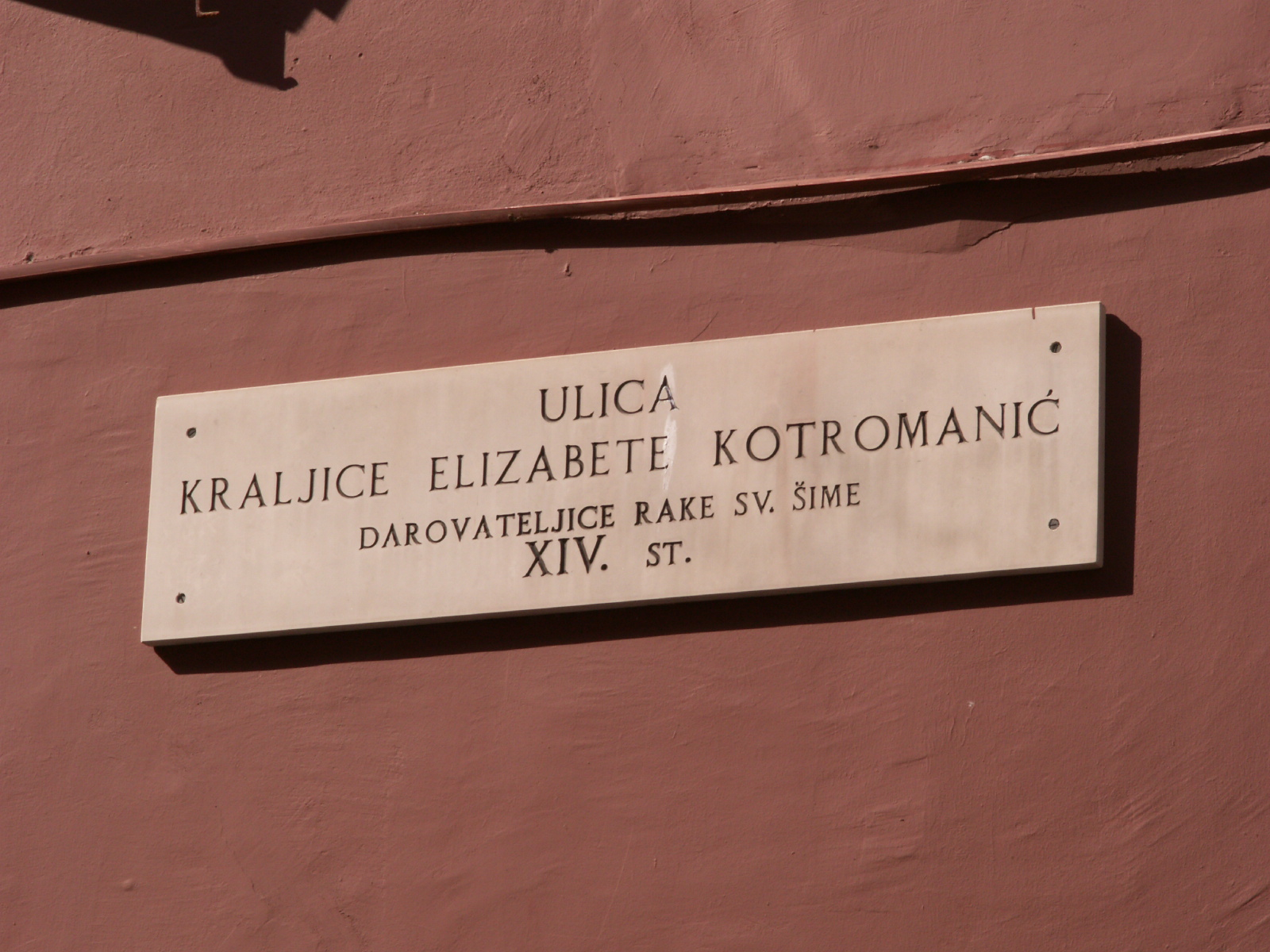 Street of Elizabeth Kotromanic in Zadar, 2009